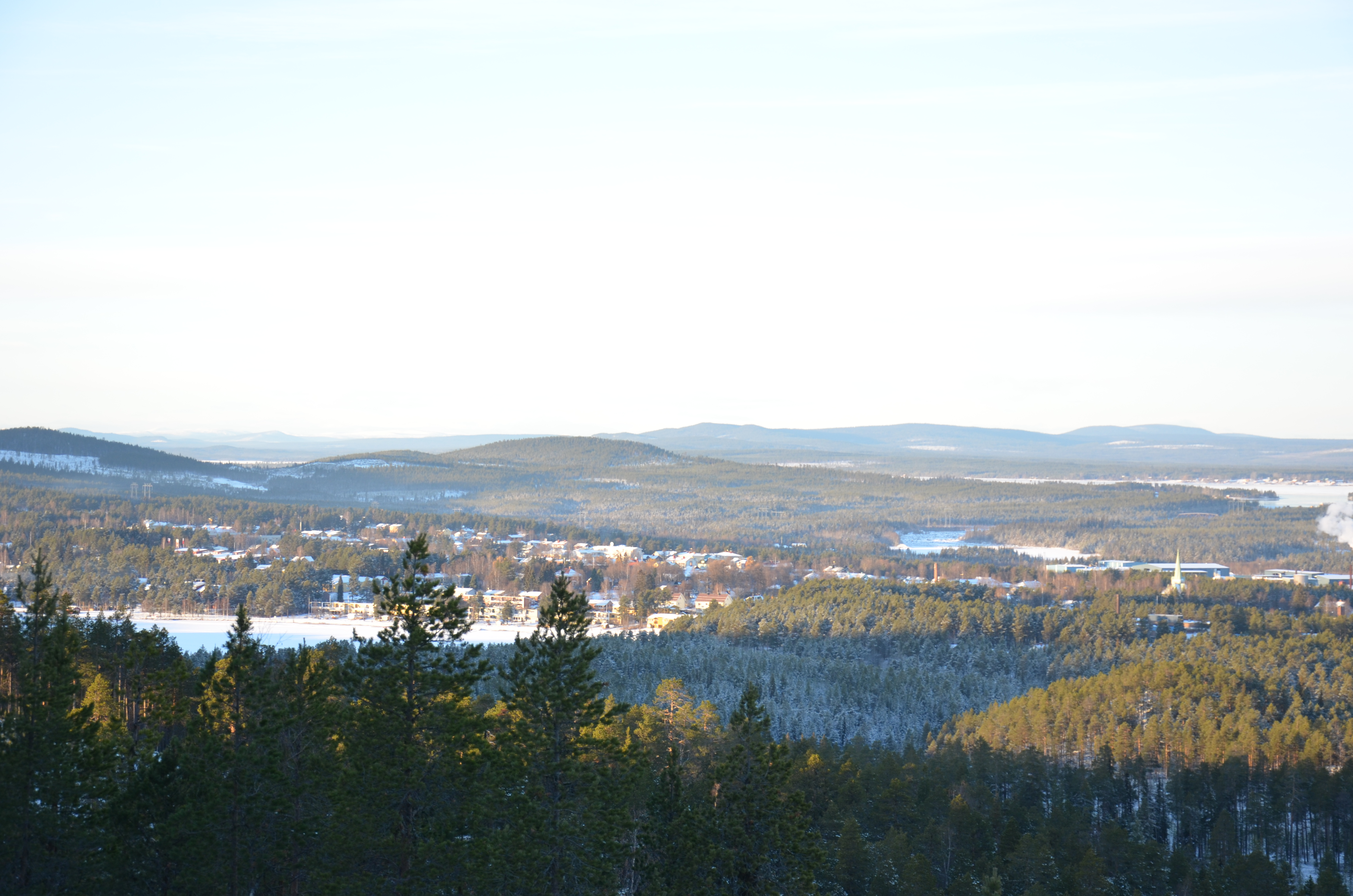 Utsikt från Storknabben över Jokkmokk åt nordväst